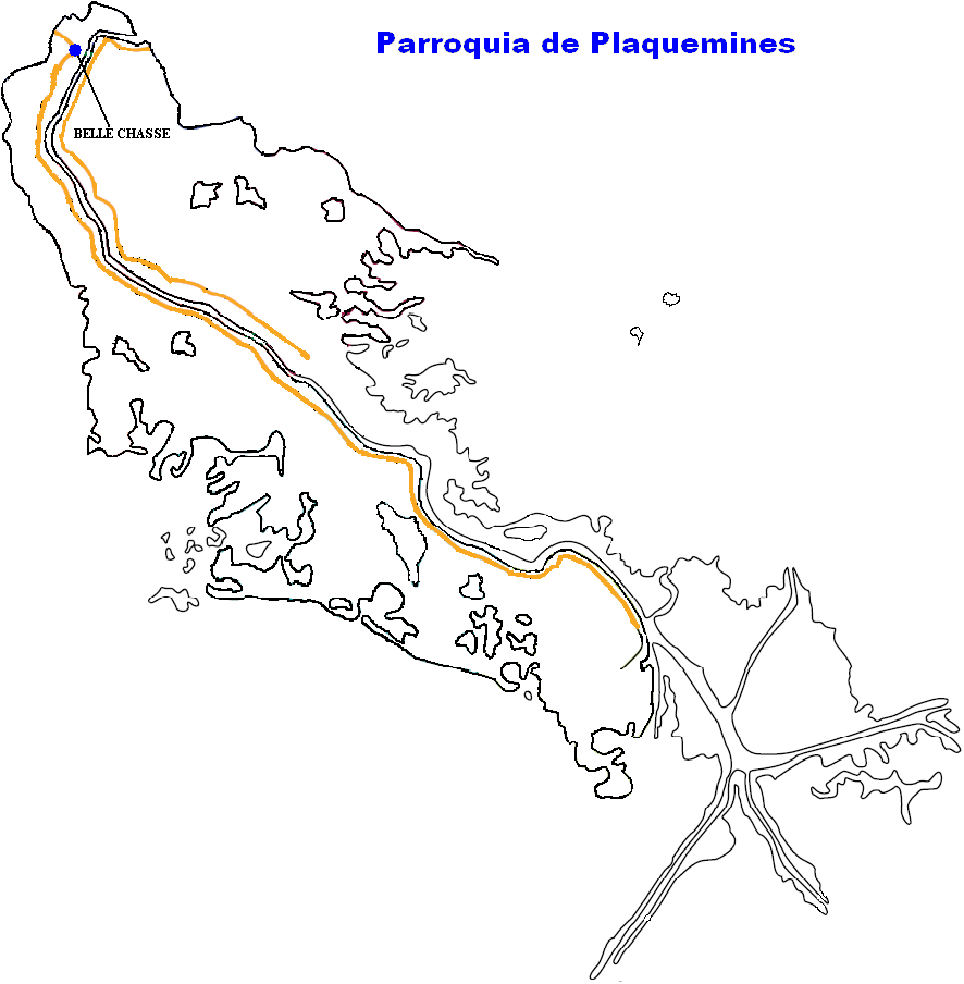 Belle Chasse in Plaquemines